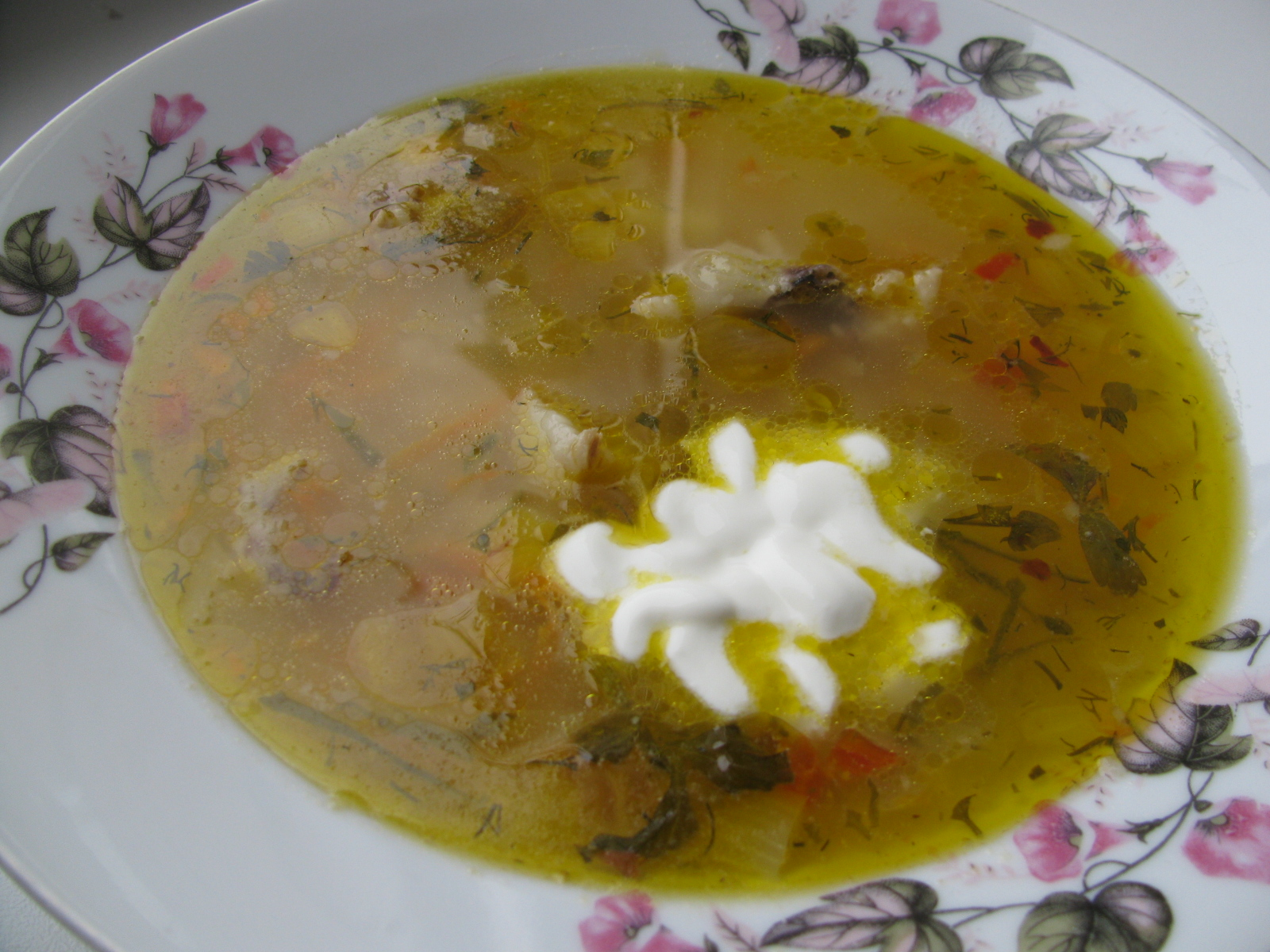 Rassolnik, soup with meat, rice and pickled cucumbers